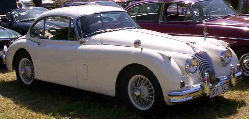 Jaguar XK150 Fixed head Coupé 1958